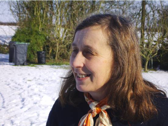 Julia Jones, formerly also known as Julia Thorogood,[1] born 1954, is an English writer, editor, book publisher and classic yacht owner. (note, there is also an English screen writer of the same name)